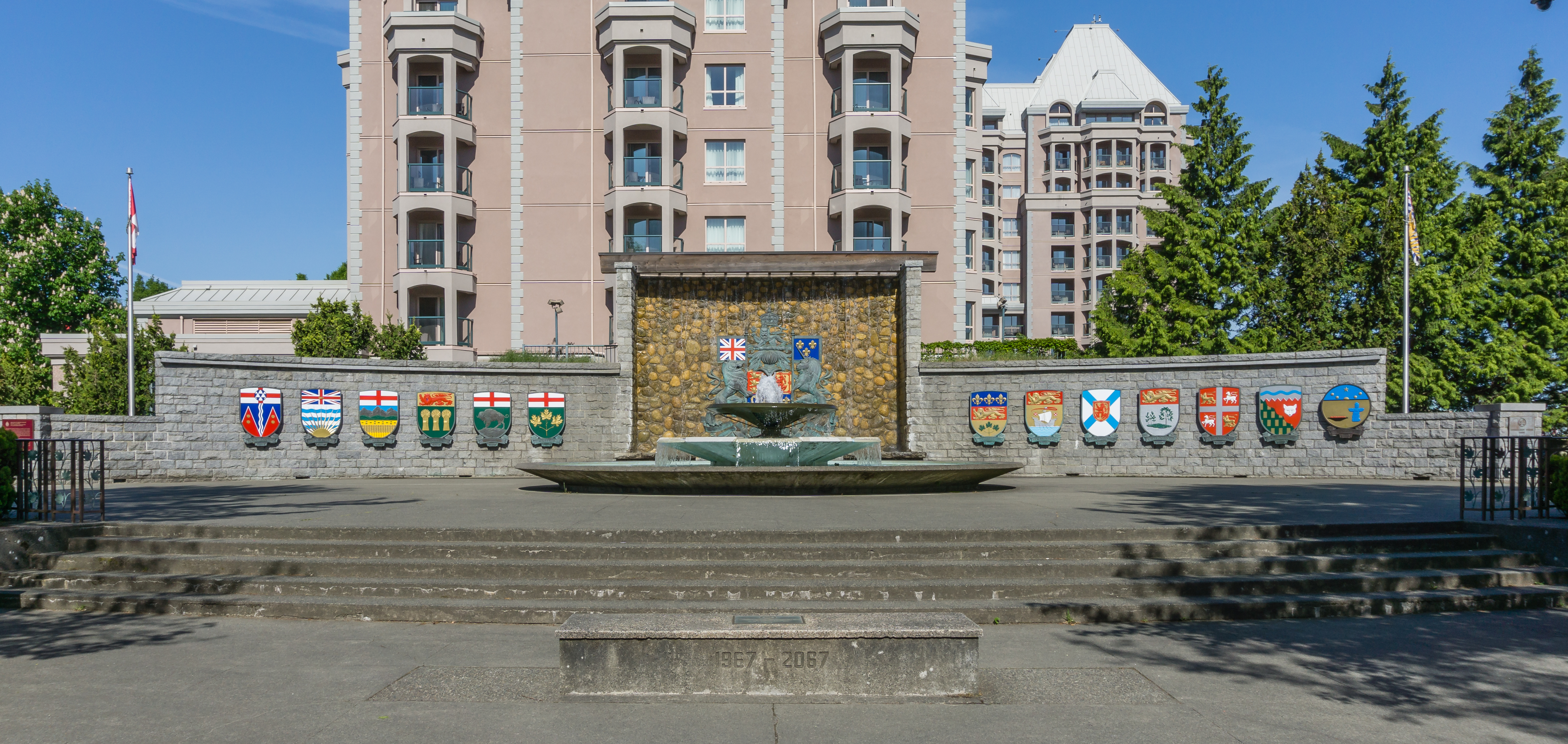 Confederation Garden Court, Victoria, British Columbia, Canada